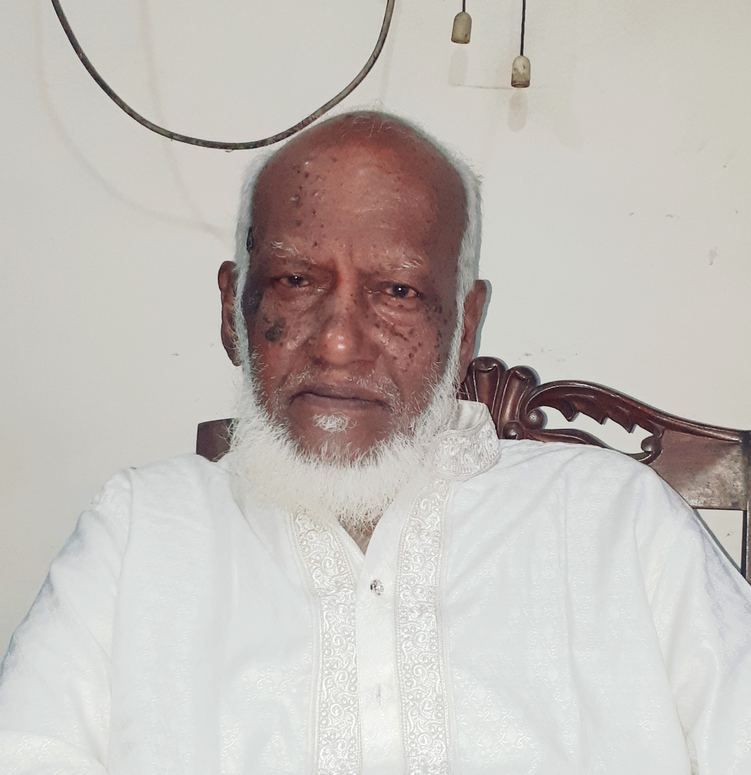 Mohammad Abdul Gafur, Bangladeshi journalist, teacher and language activist of the Bengali Language Movement.